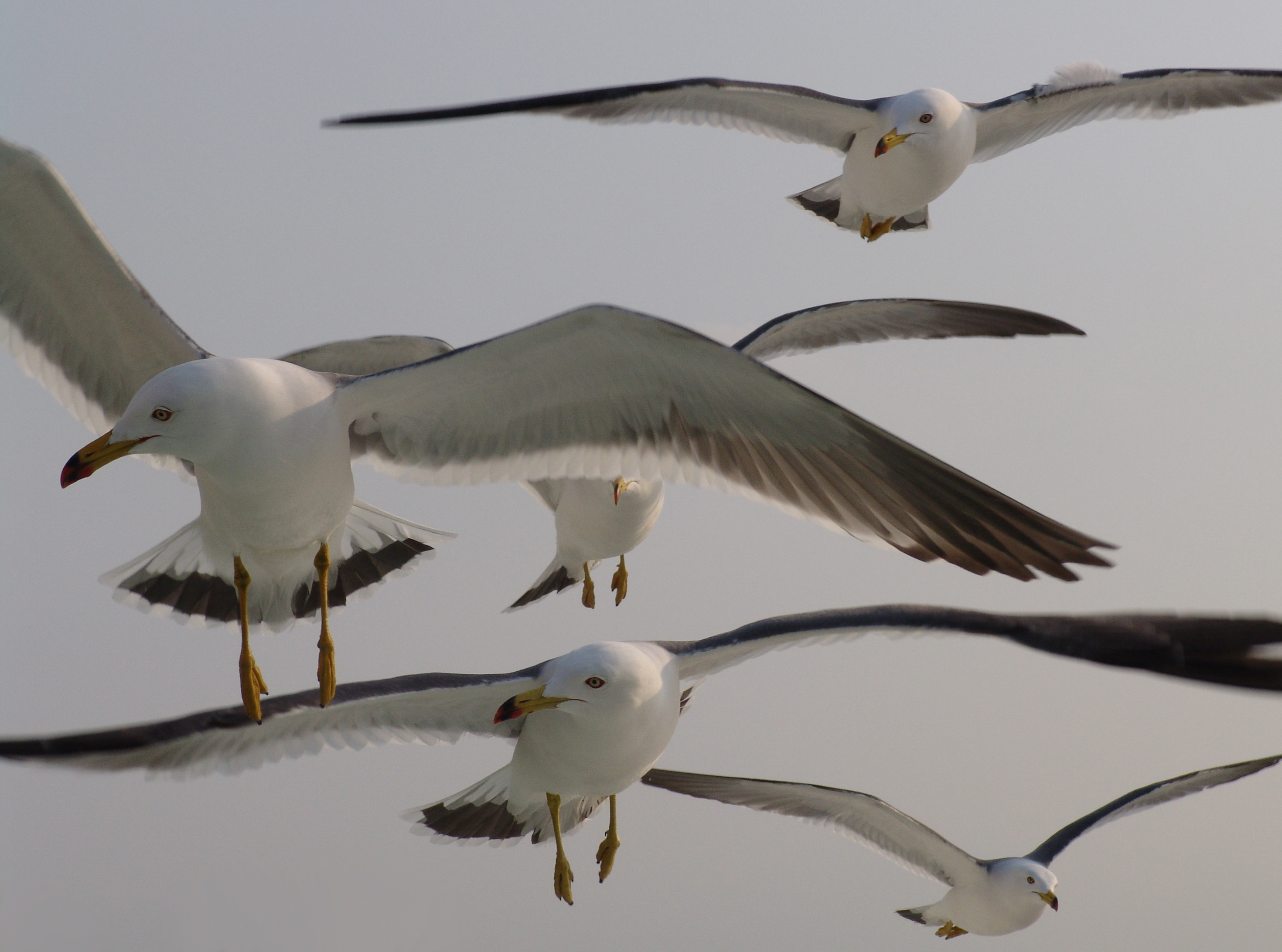 Larus crassirostris in the air